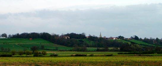 I am the copyright holder. This shows the Lincoln Cliff at Coleby. The photo is taken from the Brant Broughton road in the valley of the River Witham.